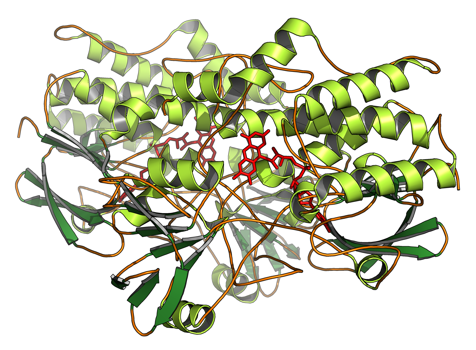 structure of yeast FMO